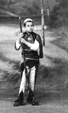 Young Prince Paul of Yugoslavia in albanian folk costume